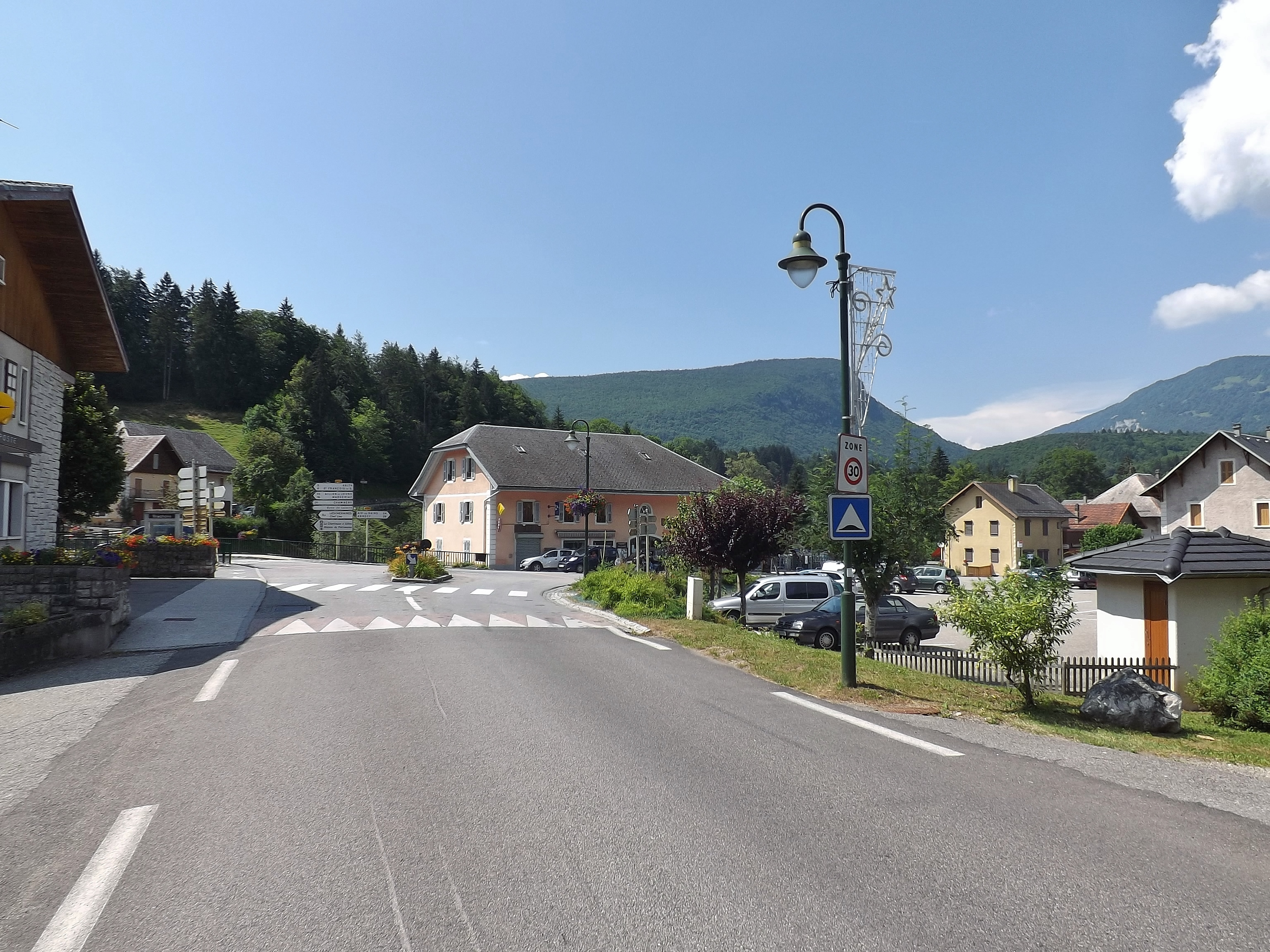 Sight of the hamlet called Le Pont, in the French commune of Lescheraines in Savoie (Bauges mountains).